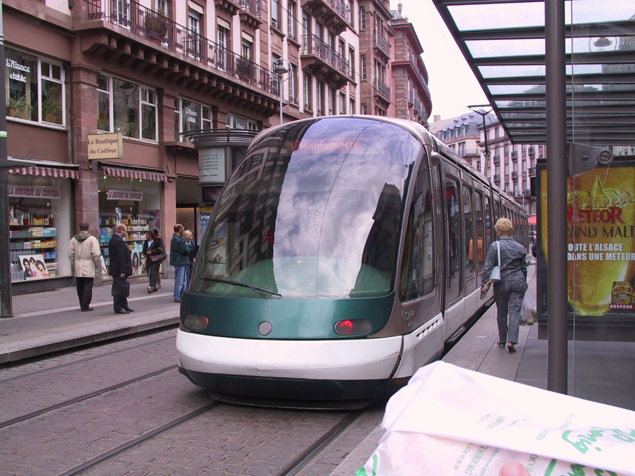 Eurotram from Strasbourg